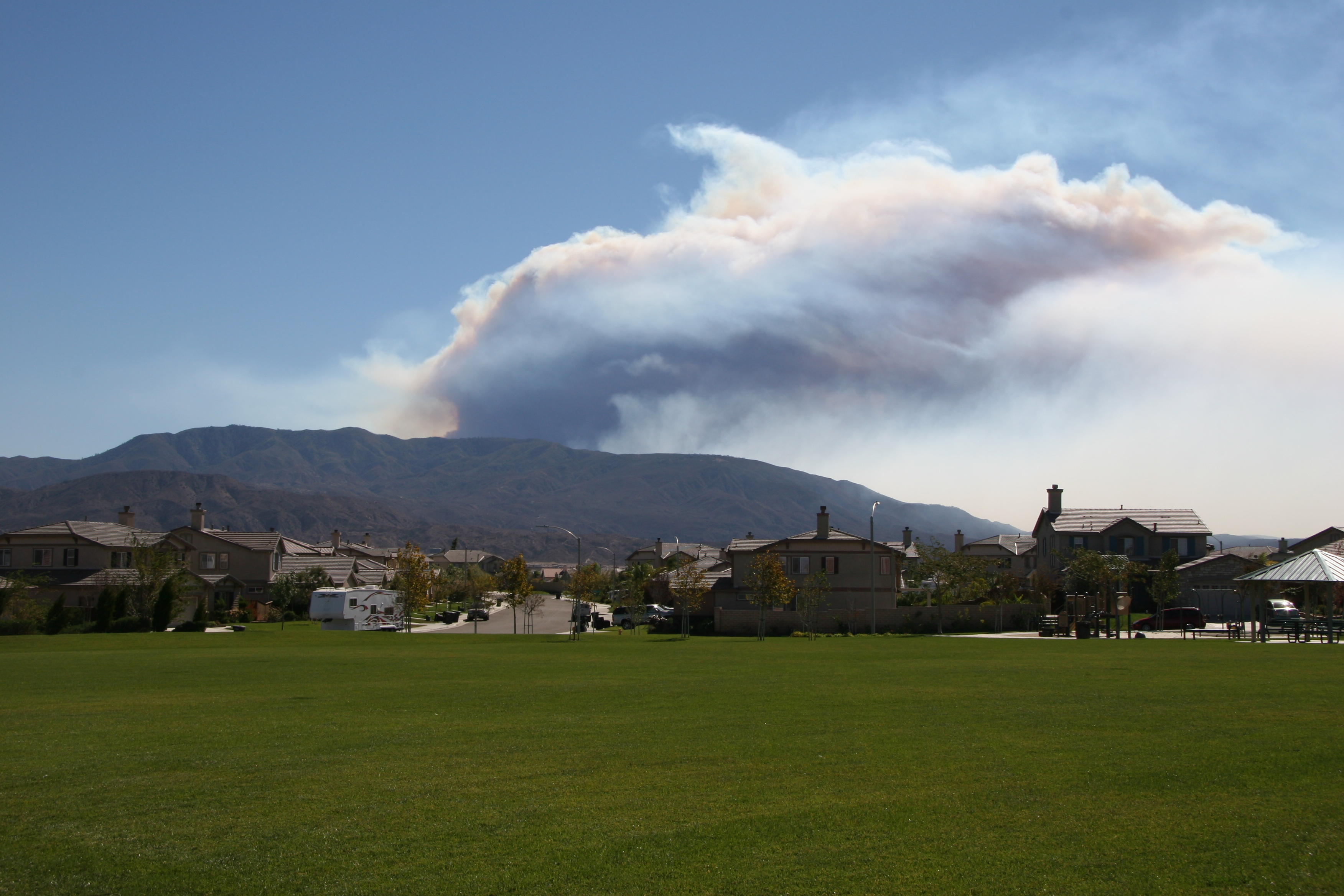 Looking South towards San Diego from our park in Temecula